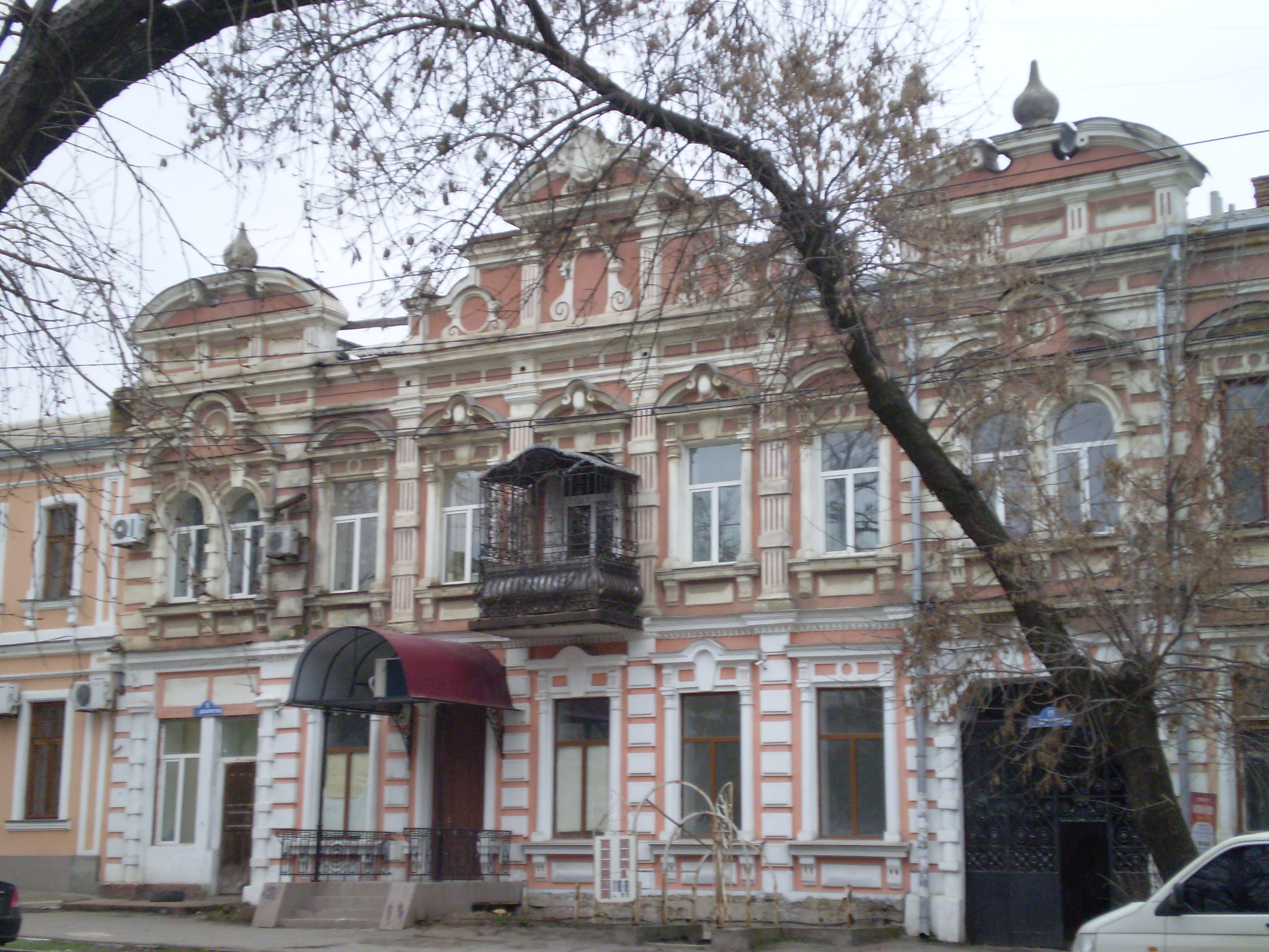 вул. Декабристів, 15Миколаївська весна у Вікіпедії